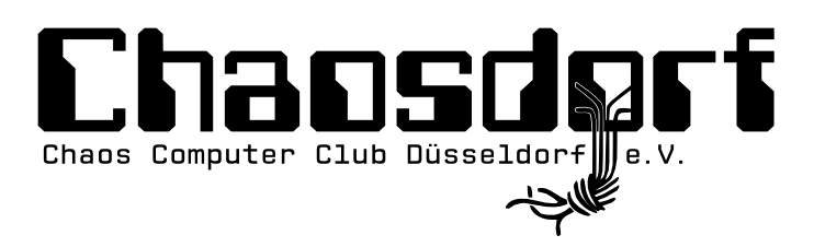 Chaosdorf logo